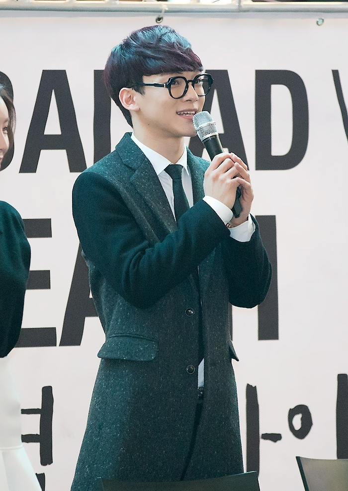 Chen in SM The Ballad Music Plus on February 15, 2014.